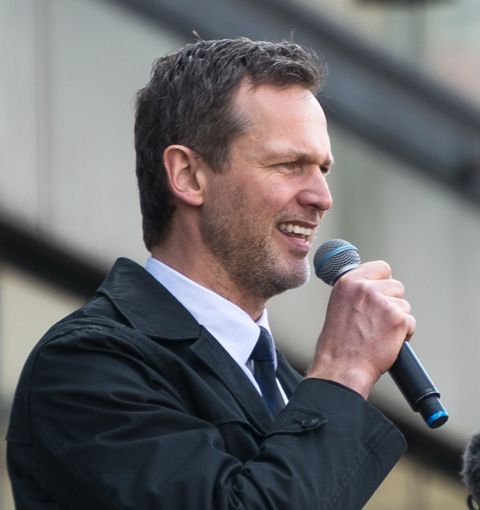 Rickard Sjöberg during the manifestation at Sergels torg in Stockholm after the terrorist attack on April 7, 2017.